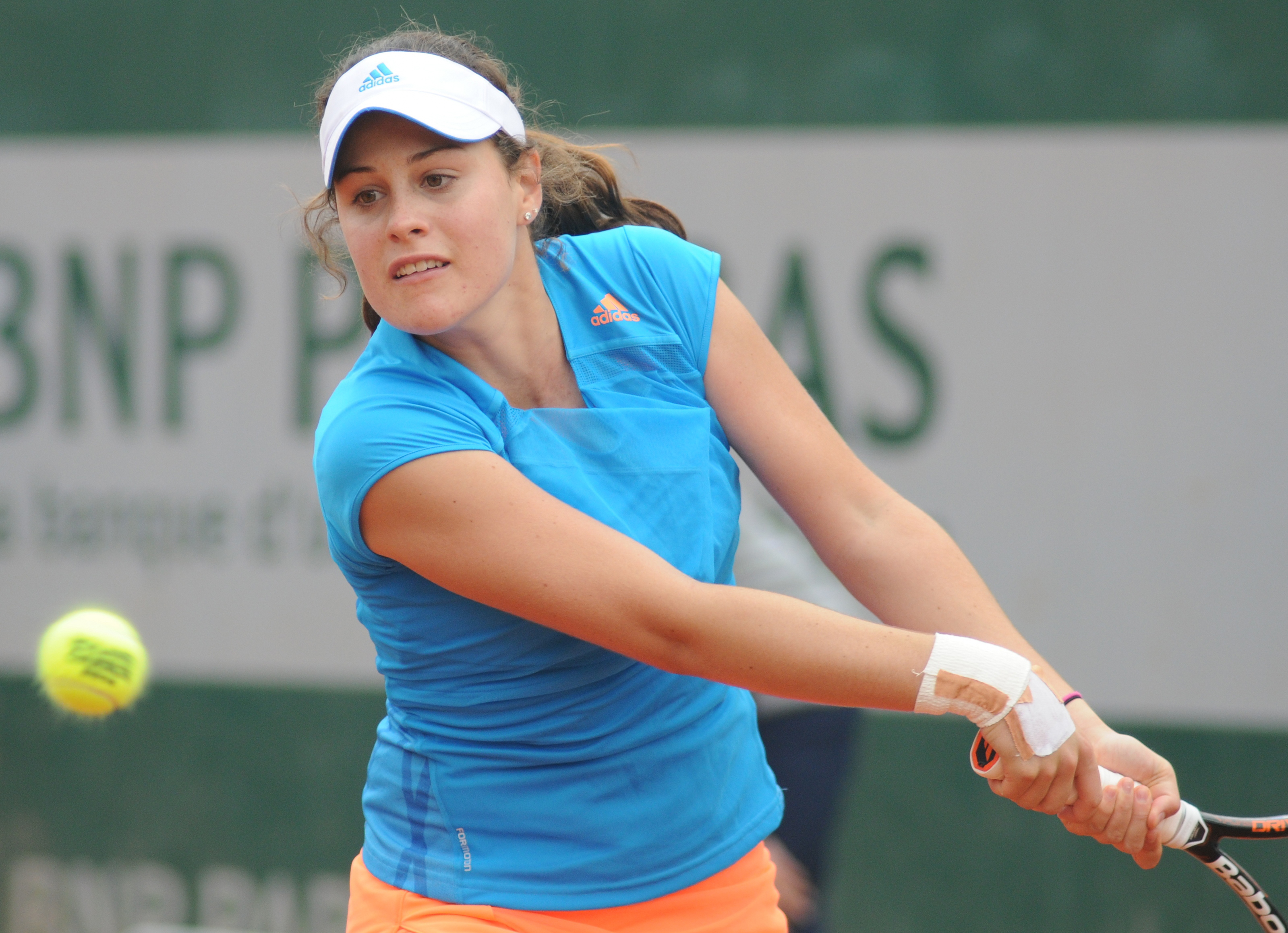 Kimberly Birrell at the 2014 French Open